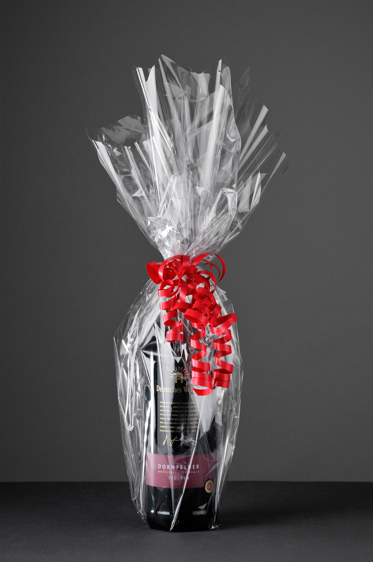 A wrapped bottle of wine.